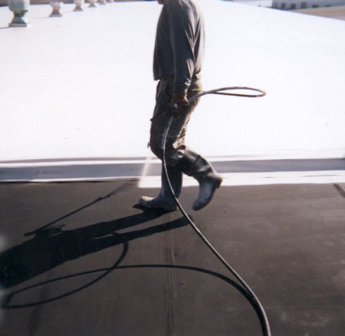 This image shows a roofing contractor during the process of applying an American WeatherStar elastomeric roof coating to a commercial flat roof.